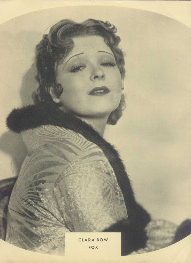 Publicity photo of Clara Bow for Argentinean Magazine. (Printed in USA)